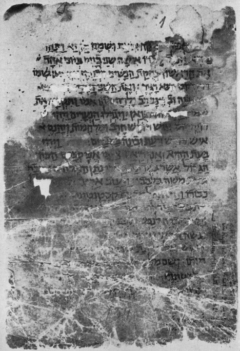 Cairo Geniza - Obadiah Scroll, Document II (Kaufmann Genizah Collection, MS 24, f. 1r)